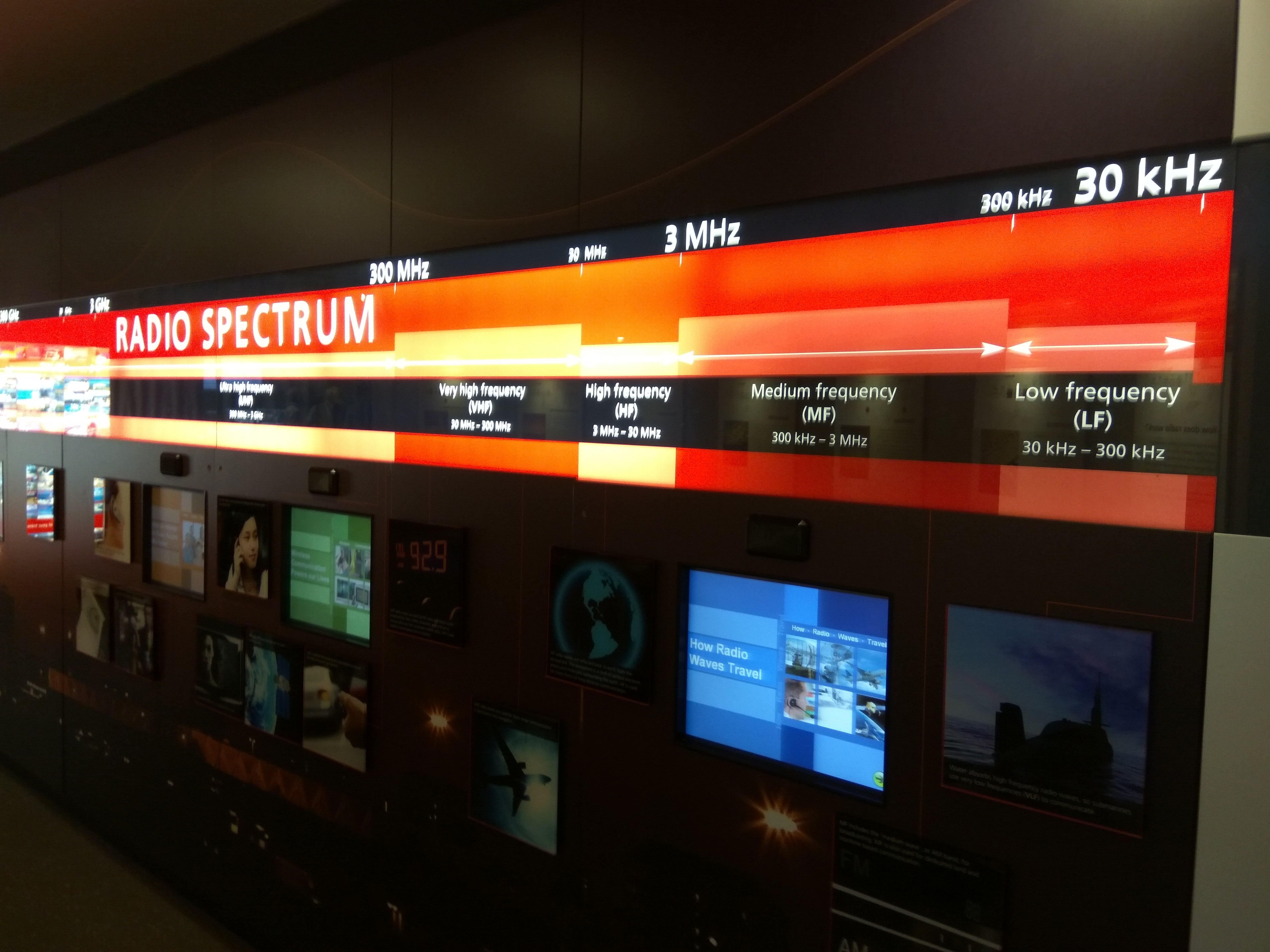 Exhibition at RSGB National Radio Centre, informing about how radio portion of electromagnetic spectrum is currently allocated and utilized on specific frequency bands. Image taken in November 2016, Gregorian Calendaring Standard.